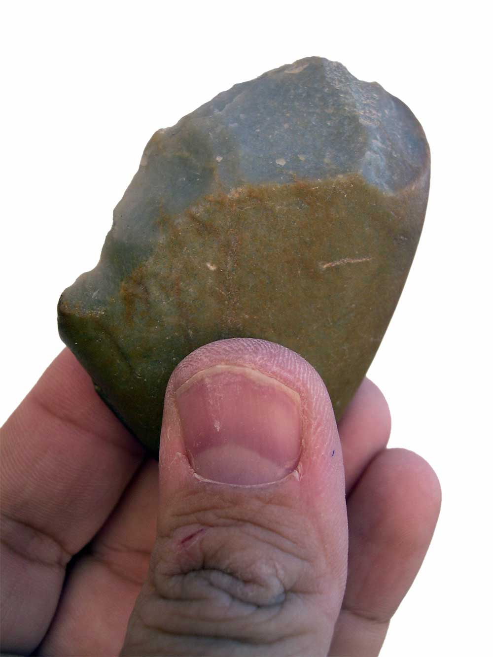 Chopper, prehistoric lithic tool that comes from the river terraces of Douro river (Valladolid, Spain)